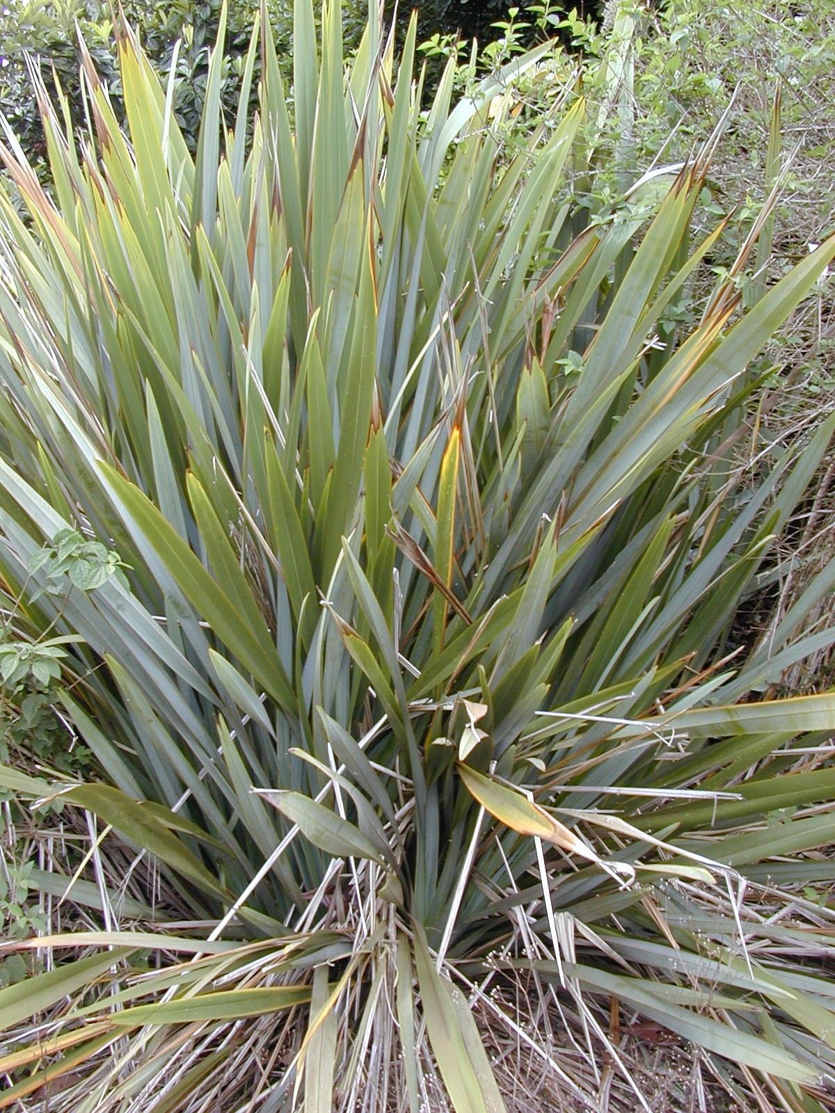 Phormium tenax (habit). Location: Maui, Kula